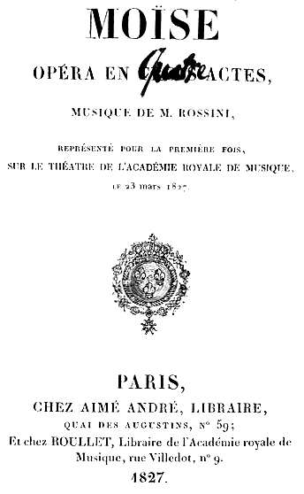 Gioachino Rossini - Moïse et Pharaon - titlepage of the libretto - Paris 1827